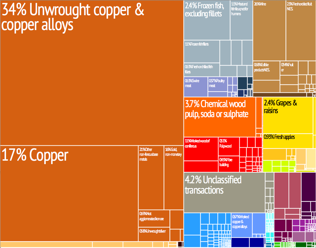 Export Trading Treemap. From MIT/Harvard Atlas of Economic Complexity